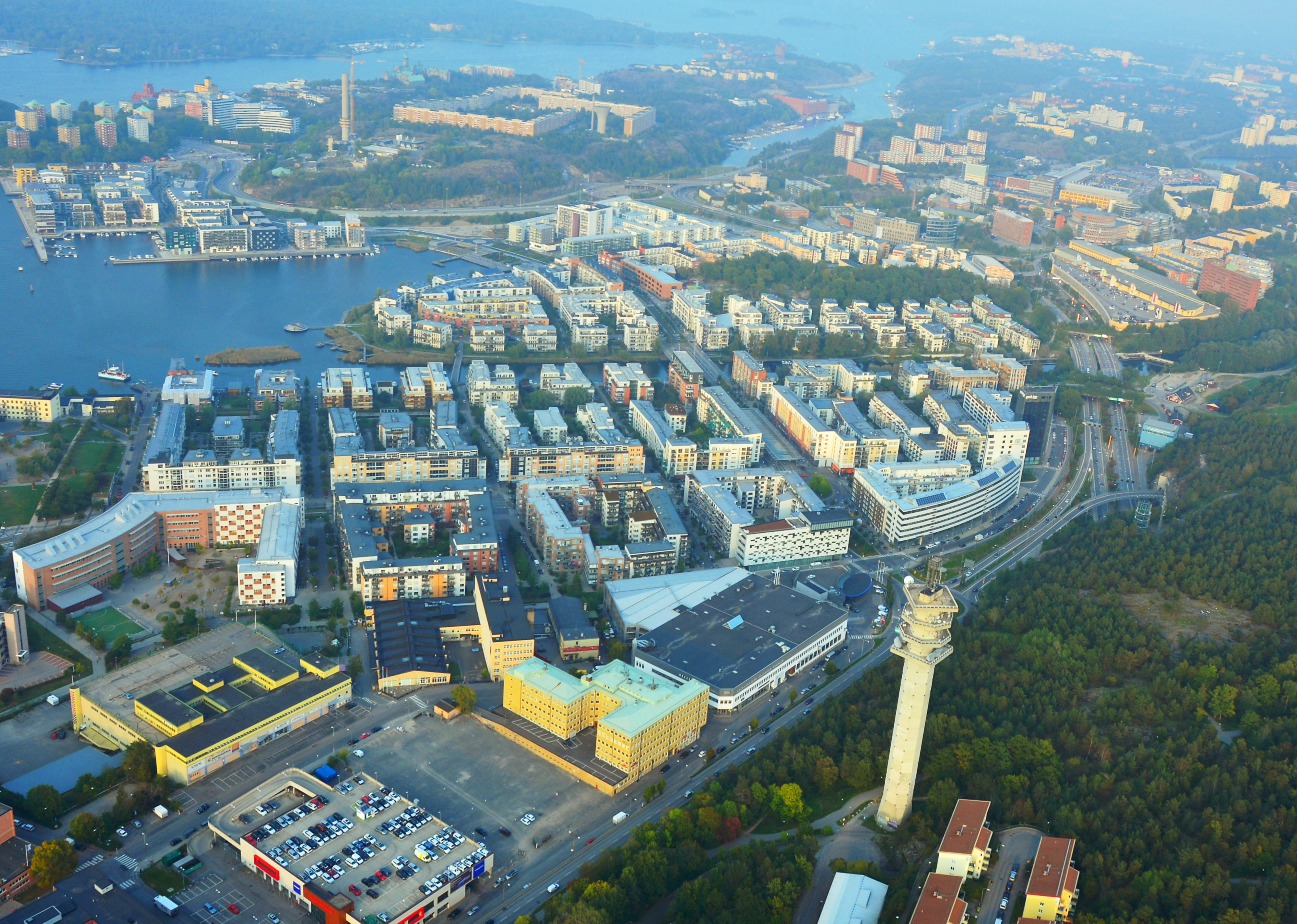 Hammarby Sjöstad in Stockholm, Sweden.